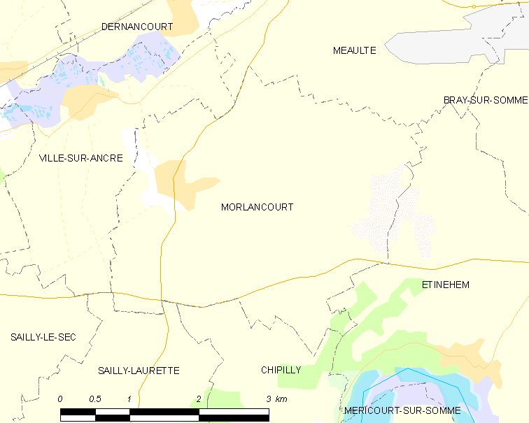 Map of French municipality Morlancourt